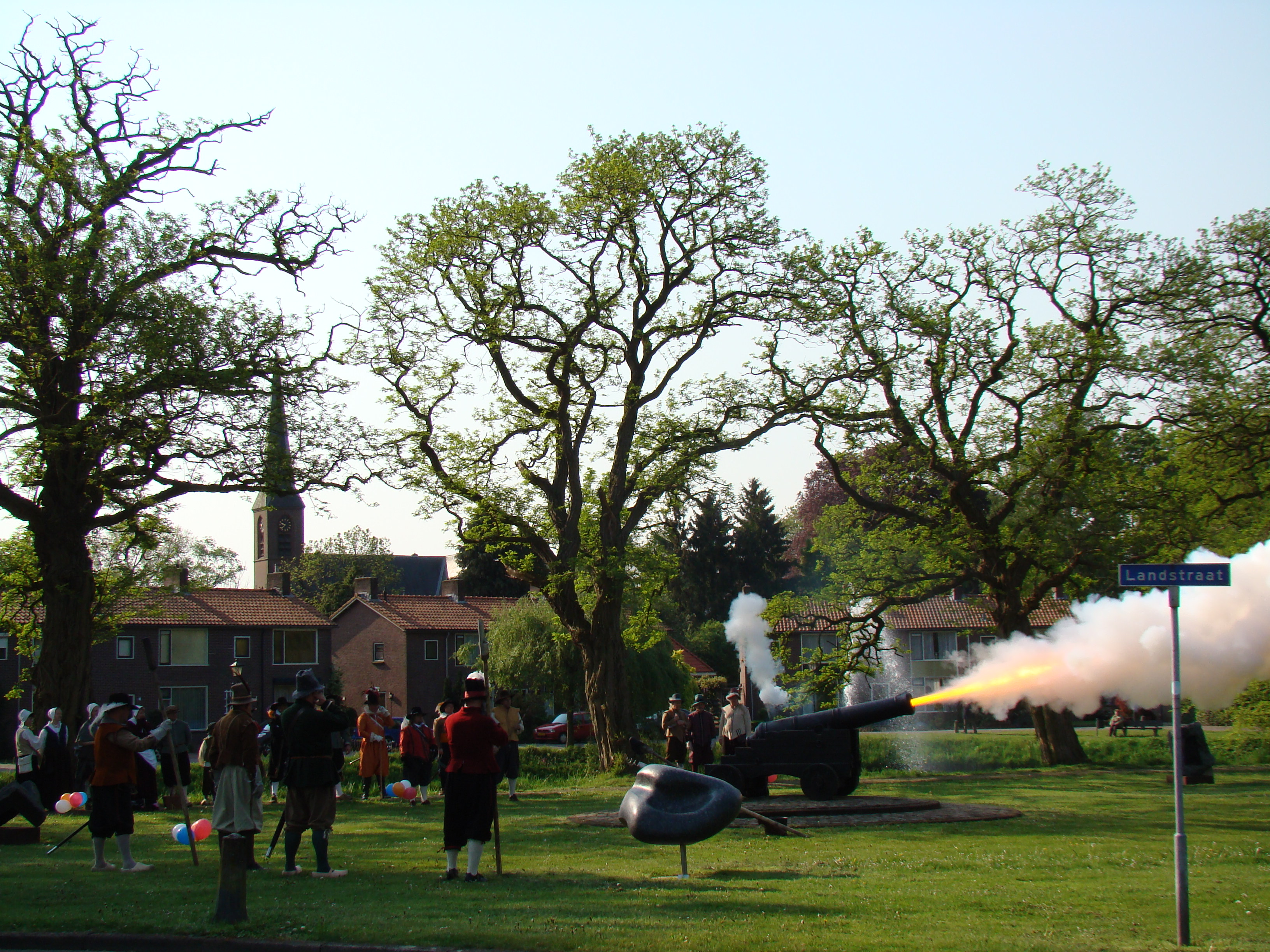 Impressions of Compagny Onversaegt and Compagny Grol, shooting the canon at Bredevoort.